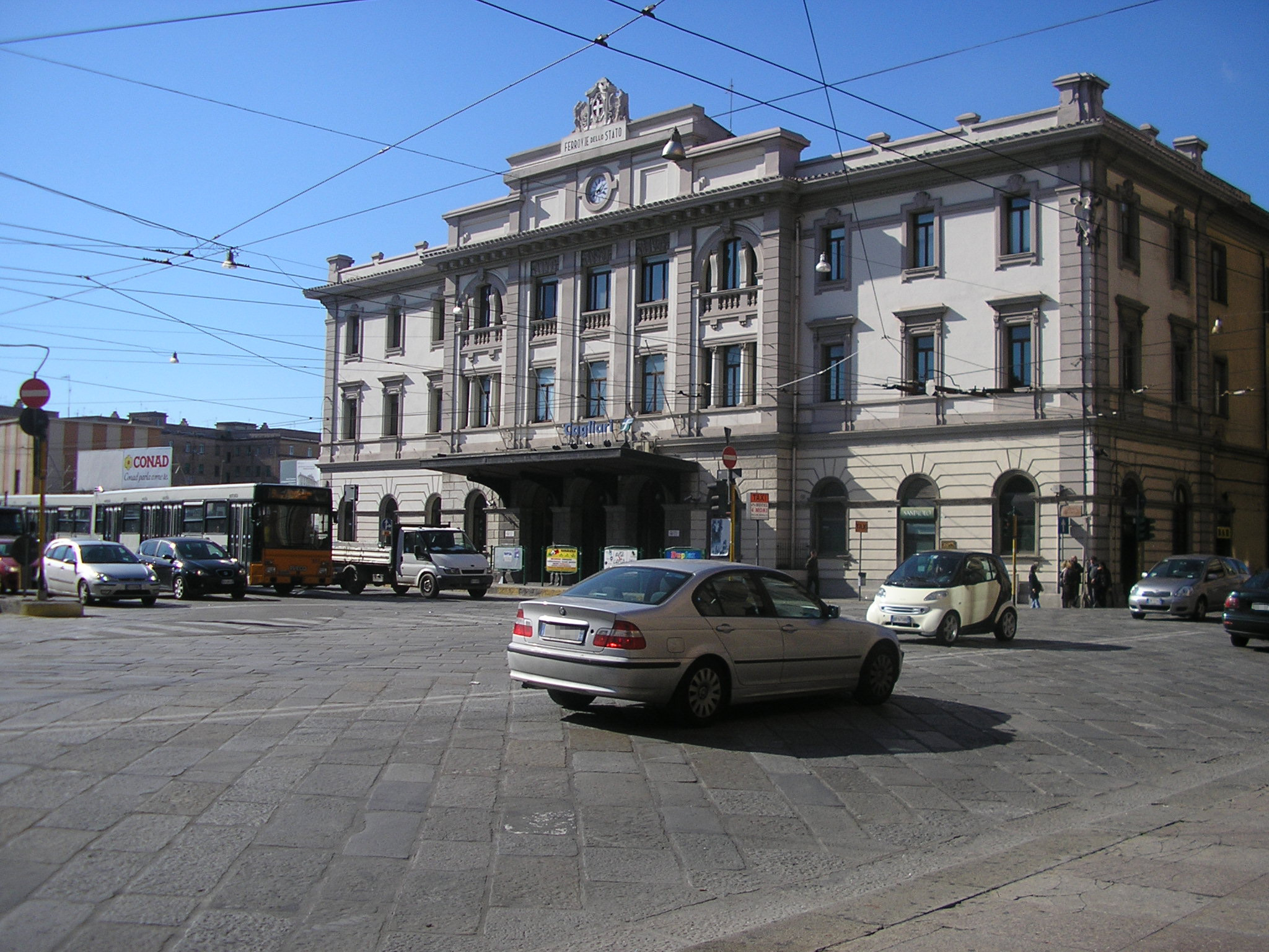 The FS railway station of Cagliari, Sardinia, Italy